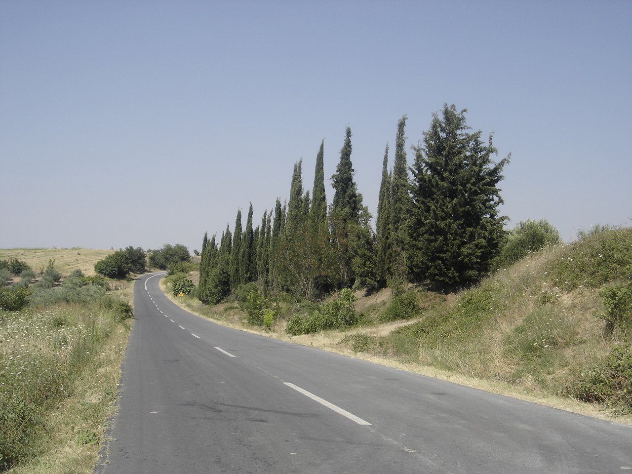 The road between Livadi and Paliampela.